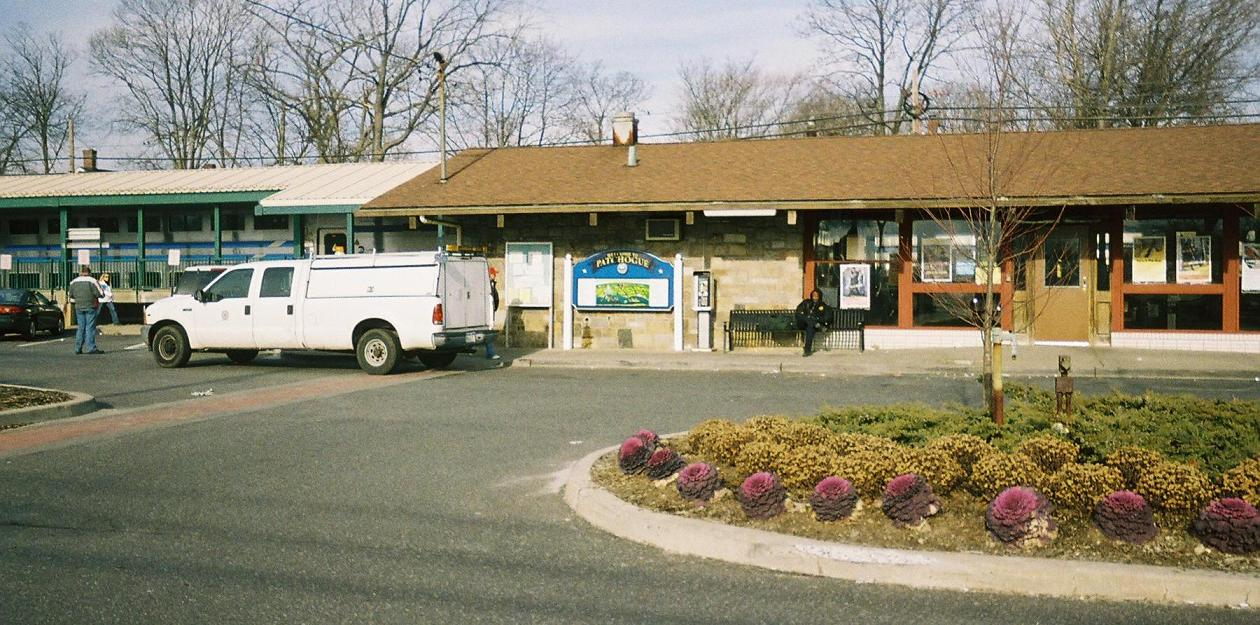 Patchogue (LIRR Station) from the entrance at Division Street and Cedar Avenue.